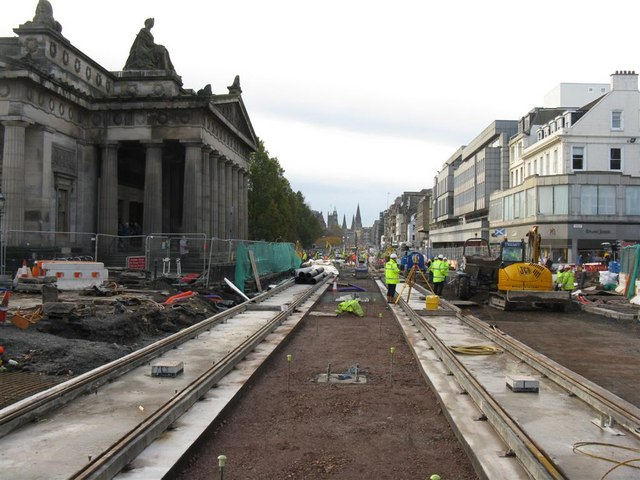 Construction works for the Edinburgh Trams system in Princes Street. On the left is the Royal Scottish Academy, while on the right is the junction with Hanover Street. The site of the future Princes Street tram stop is just up ahead, opposite the second large grey building. It took another four and a half years after this photograph before it eventually opened for passengers.